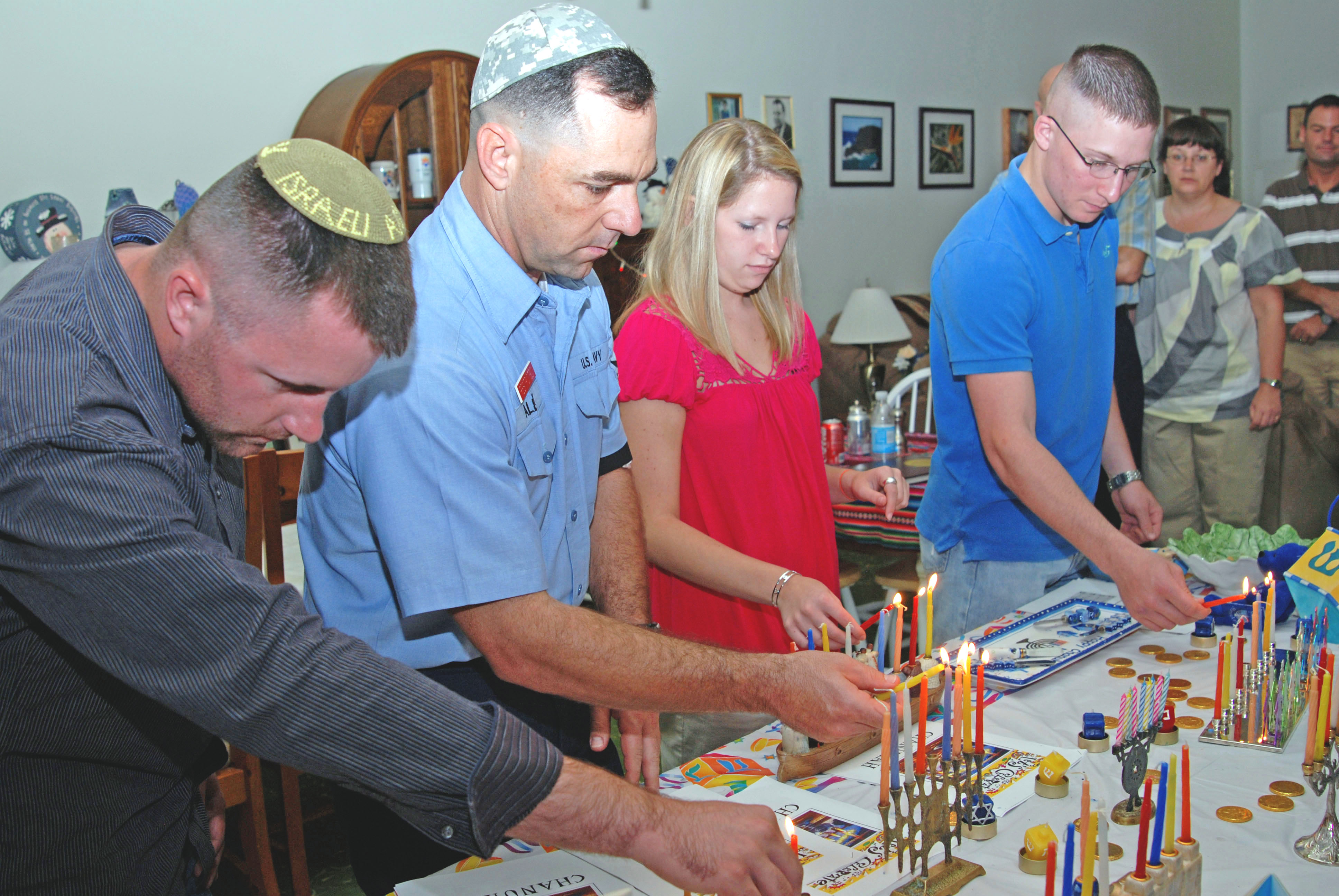 GUANTANAMO BAY, Cuba (Dec. 28, 2008) Military and civilian personnel light Menorahs in observance of the Jewish holiday Hanukkah at the residence of Jeffery Einhorn, a Columbia College faculty member. U.S. Navy photo by Mass Communication Specialist 1st Class Richard M. Wolff (Released)